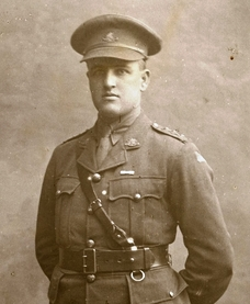 Portrait of Captain William Francis John McCann MC, 10th Battalion AIF (1917-18) Other information this photograph is cropped from AWM P08858.018, which depicts McCann and his brother Claude Cyril John McCann MC